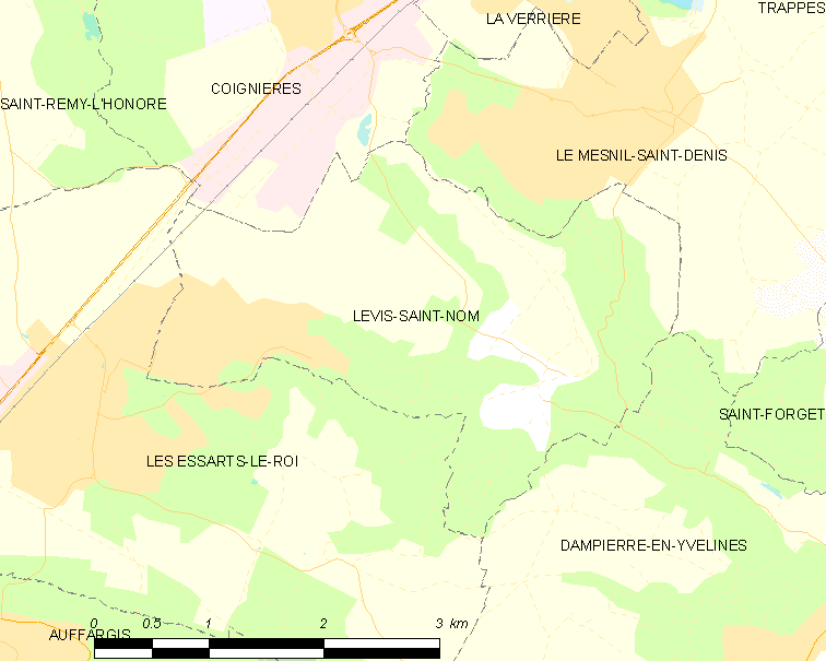 Map of French municipality Lévis-Saint-Nom